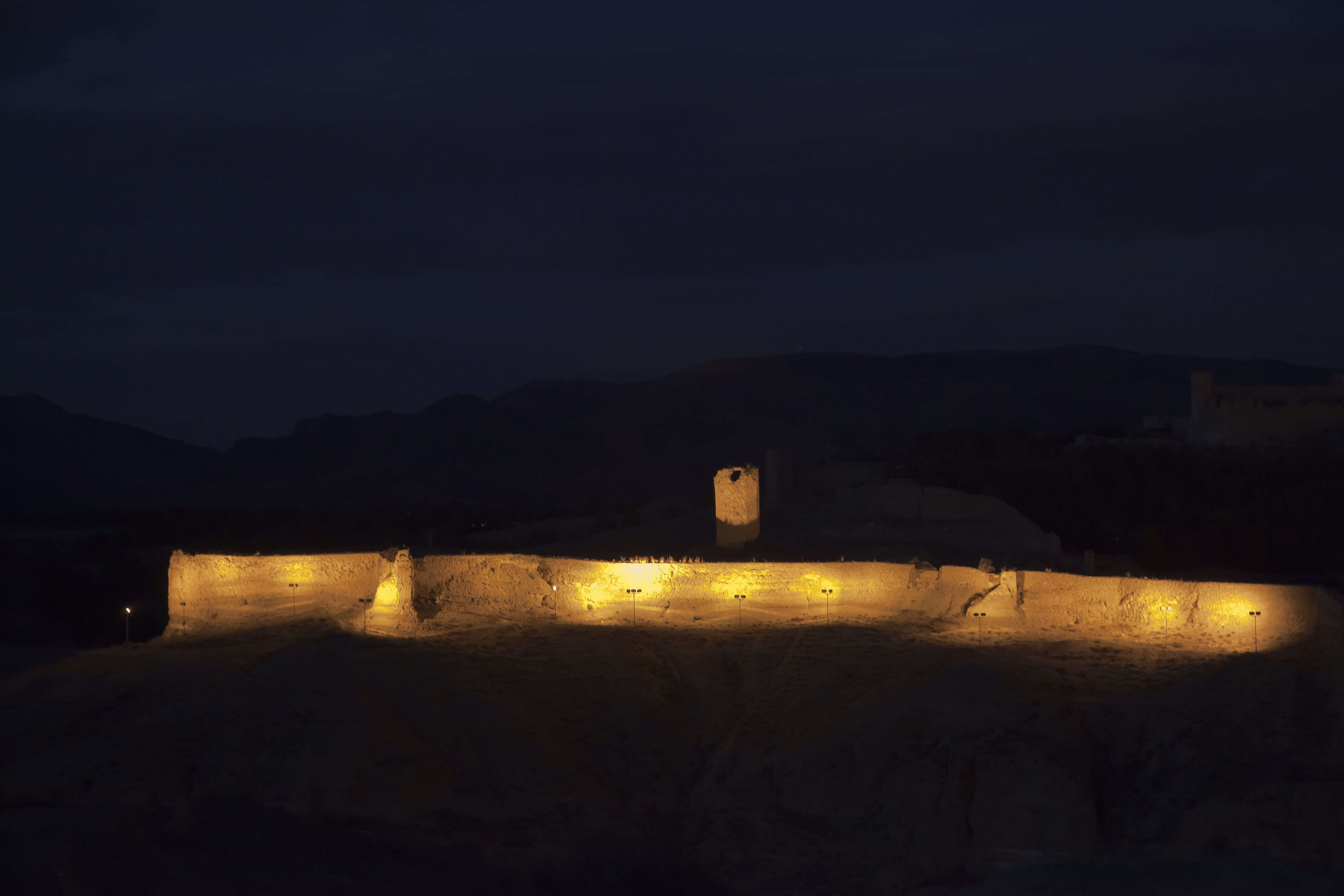 Walls of Calatayud, Spain